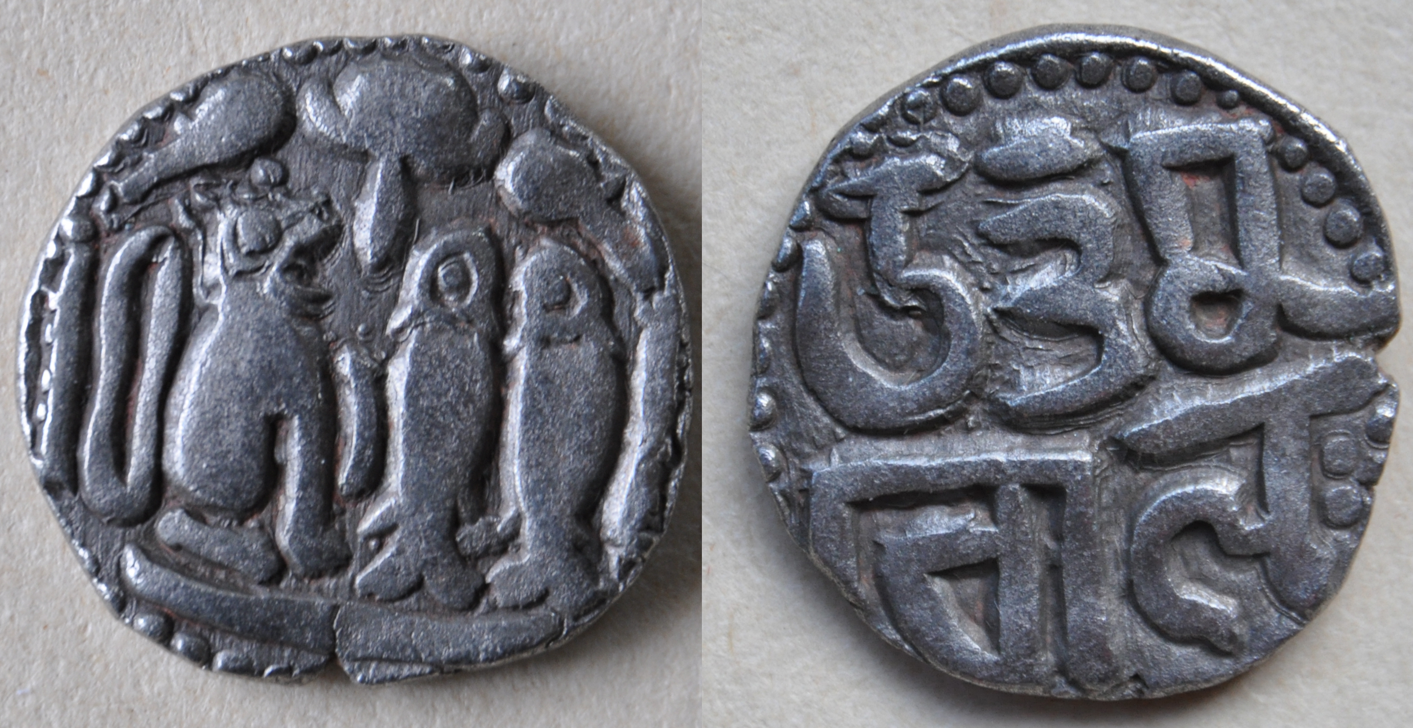 Description Un kavahanu en argent de Rajendra Chola de l'empire Cholas (Sud de l'Inde) (capitale Tanjavûr). Dimension : 19 mm Poids : 4,3 g. A/ Tigre assis vers la droite, arc, torche, parasol, deux poissons à droite du tigre, ligne dessous. R/ Uttama Chola Référence : Mitchiner NIS 713/725 Description A silver kavahanu of Rajendra Chola of the Chola empire (south India) (capital Tanjavur). Dimension: 19 mm, weight: 4.3 g. A / Tiger sitting to the right, bow, torch, parasol, two fish to the right of the tiger, line below. R / "Uttama Chola" Reference: Mitchiner NIS 713/725